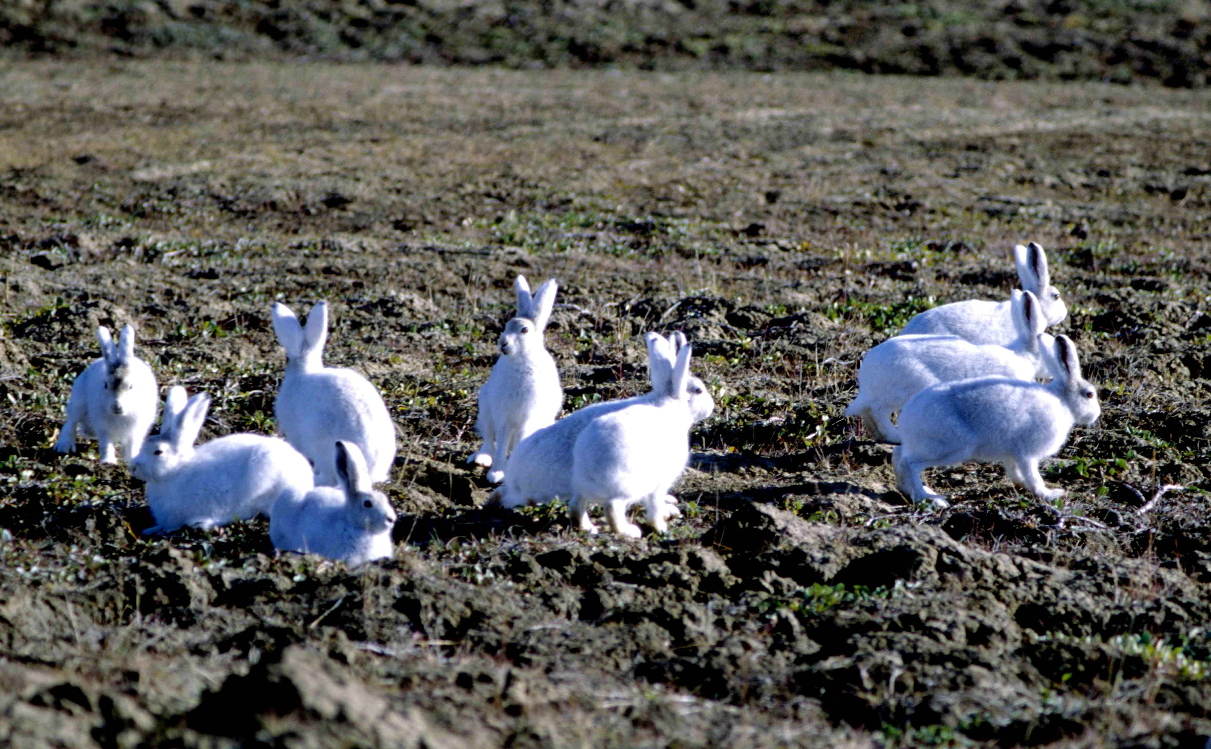 Group of Arctic Hares (Ellesmere Island, Nunavut, Canada)